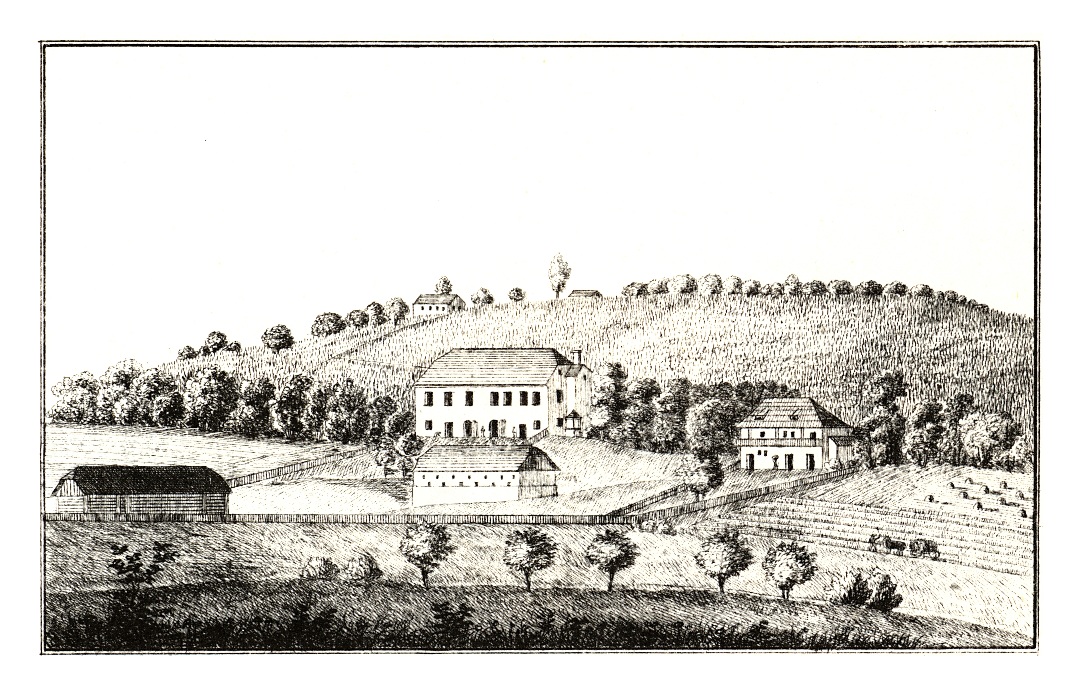 J. F. Kaiser - lithographirte Ansichten der Steyermärkischen Städte, Märkte und Schlösser, Graz 1824-1833 Joseph Franz Kaiser (1786–1859) Alternative names J. F. KaiserDescriptionAustrian printer and editorDate of birth/death 11 March 1786 19 September 1859Location of birth/death Graz (Styria) GrazAuthority control : Q1499963 VIAF: 30629353 ISNI: 0000 0000 3083 0153 LCCN: n87141671 GND: 129880159 NLP: A24960305 WorldCat creator QS:P170,Q1499963 . Scanprojekt Community Projektbudget 2012 This scan or this PDF-file was created within the GLAM-project Bookscanning, supported by Wikimedia Germany and Wikimedia Austria as a part of the community-project to capture books, documents and pictures which are not eligible to copyright or for which the copyright has expired. This document describes or depicts an object which is located in Austria today. Send requests for uncompressed scans to Hubertl. This work is in the public domain in its country of origin and other countries and areas where the copyright term is the author's life plus 100 years or less. You must also include a United States public domain tag to indicate why this work is in the public domain in the United States. This file has been identified as being free of known restrictions under copyright law, including all related and neighboring rights.